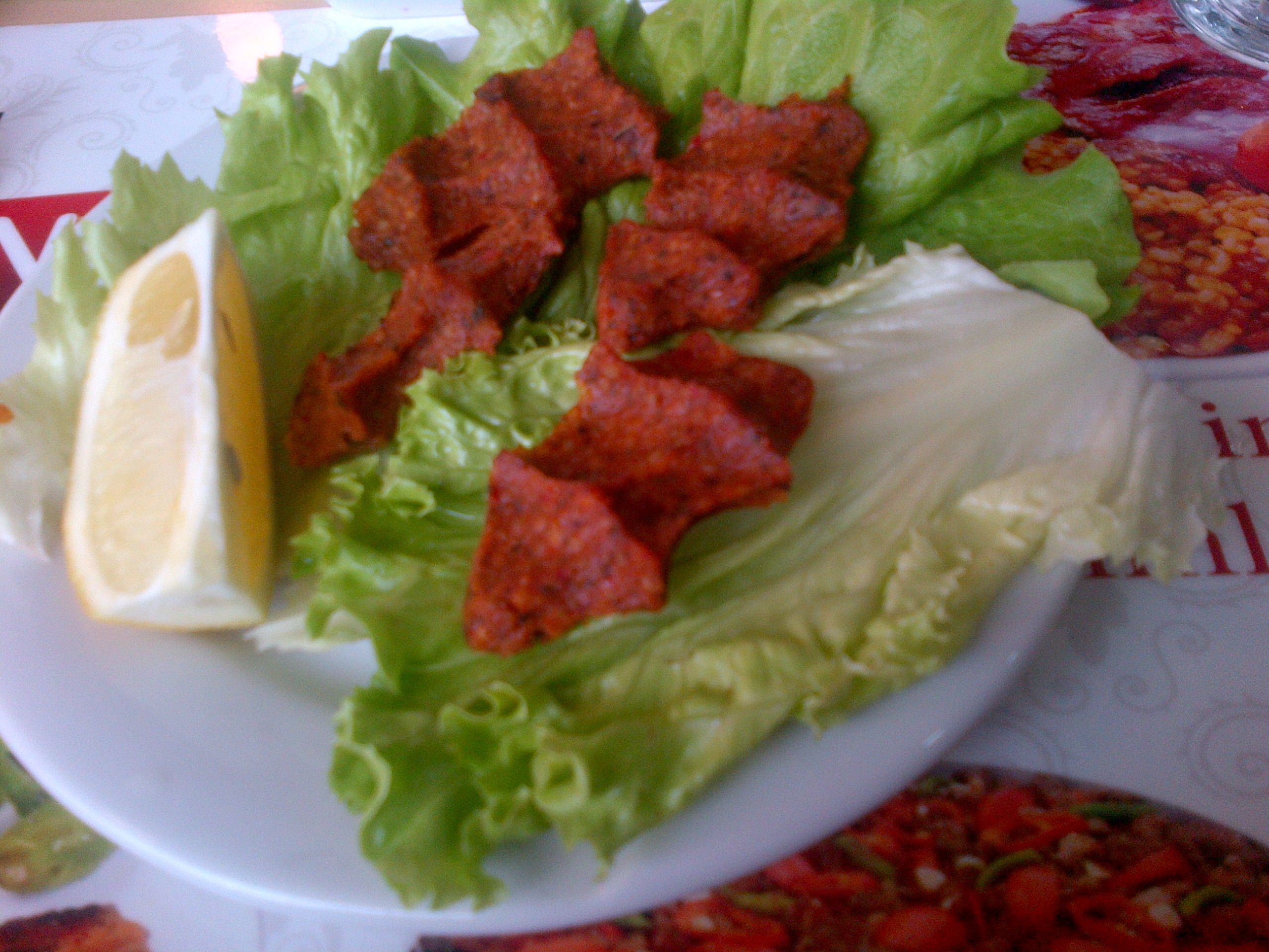 "Çiğ köfte" (lit. "raw meatballs") from the Turkish cuisine. Similar meze dishes may be found in other countries around Turkey.